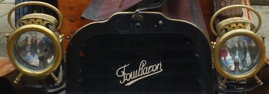 Brand Fouillaron